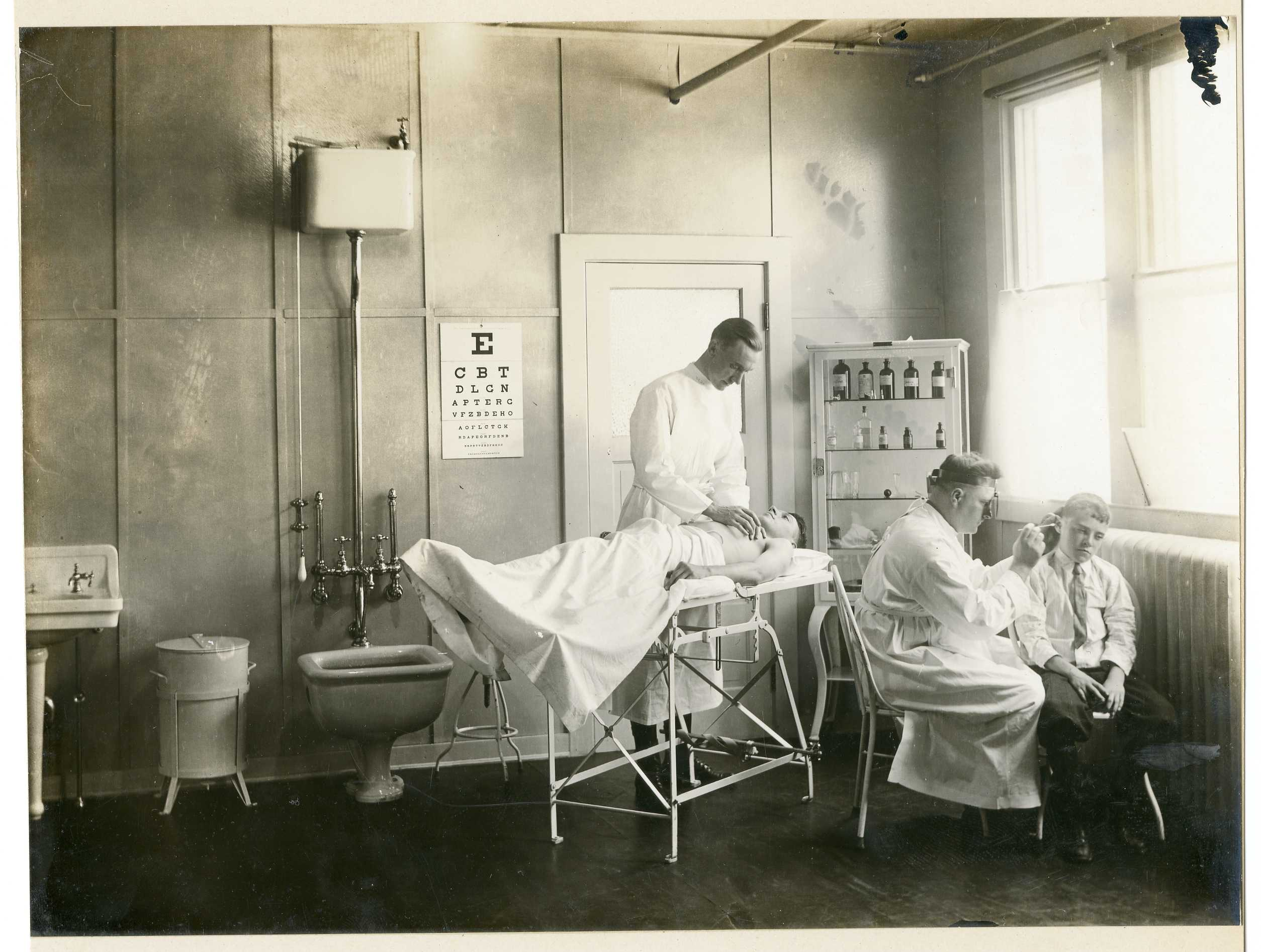 Attending surgeon's office; examination room, Washington, D.C. World War 1.